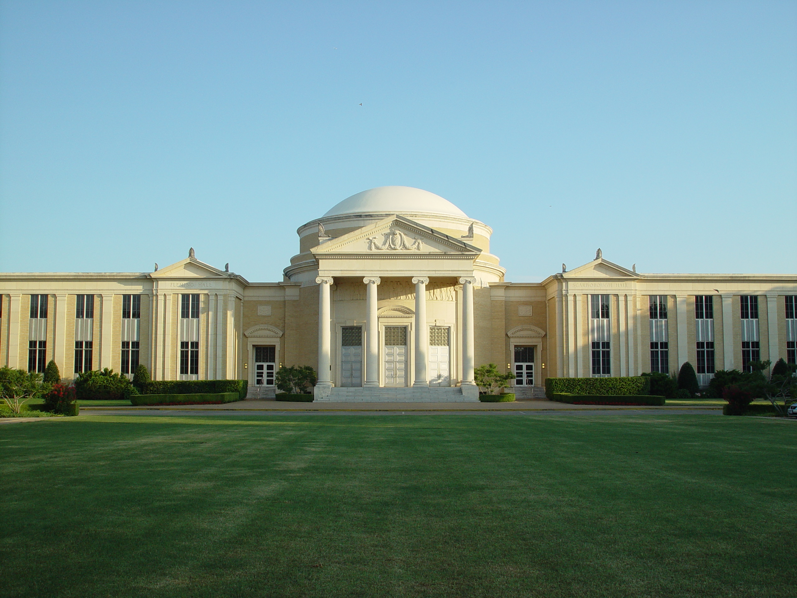 The BH Carroll Memorial Building Rotunda at Southwestern Baptist Theological Seminary in Fort Worth, TX